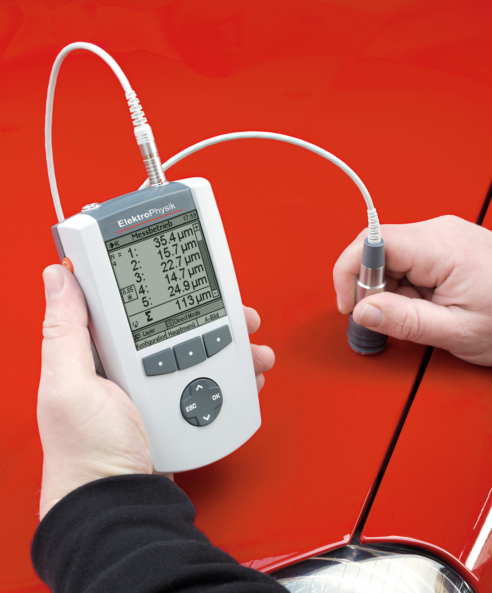 Ultrasonic coating thickness measurement of a multi-layer paint system on a car body